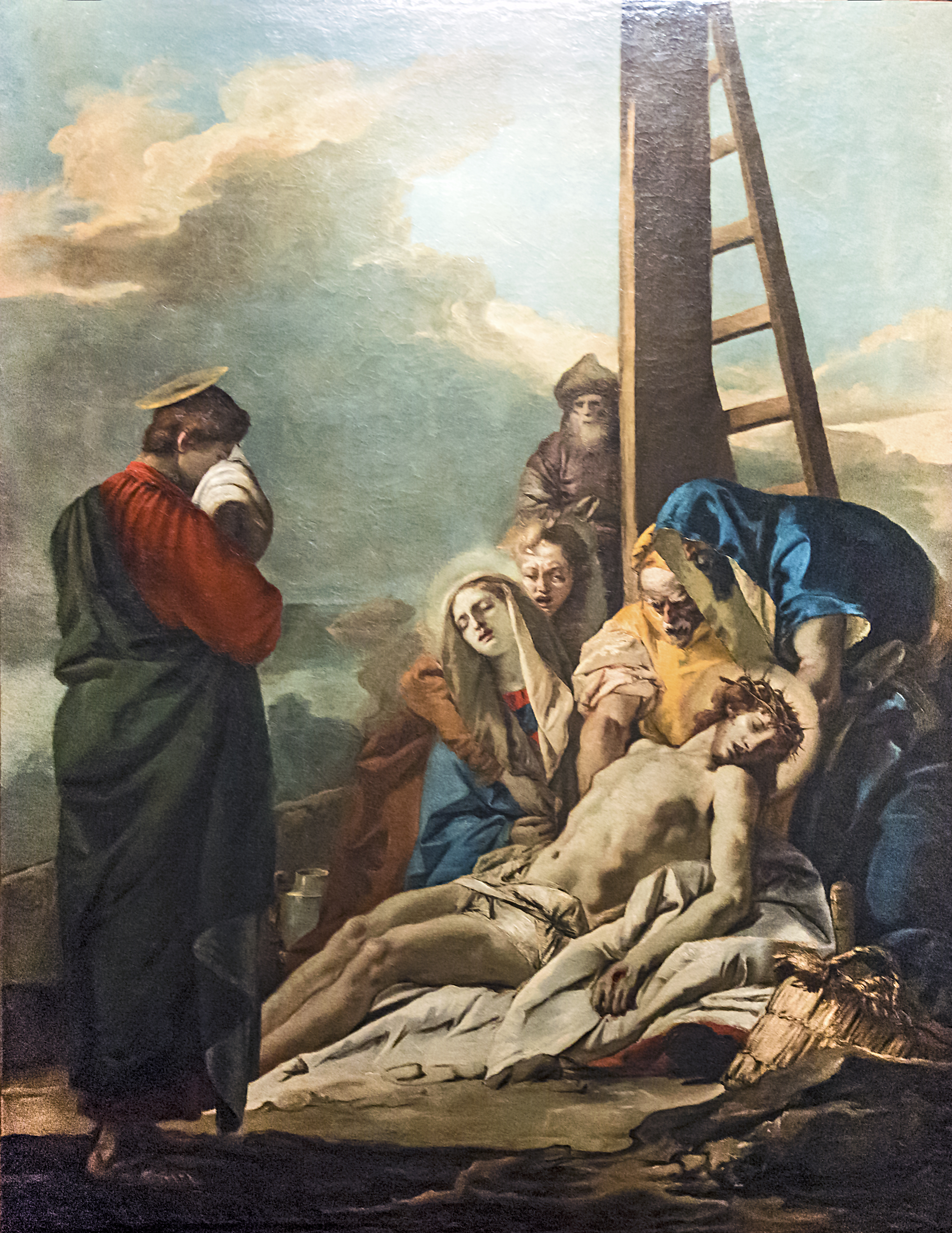 San Polo (church) - Oratory of the Crucifix - VIA CRUCIS XIII - Jesus down from the cross and his body is returned to his mother by Giandomenico Tiepolo. Oil on canvas (1745 -1749).